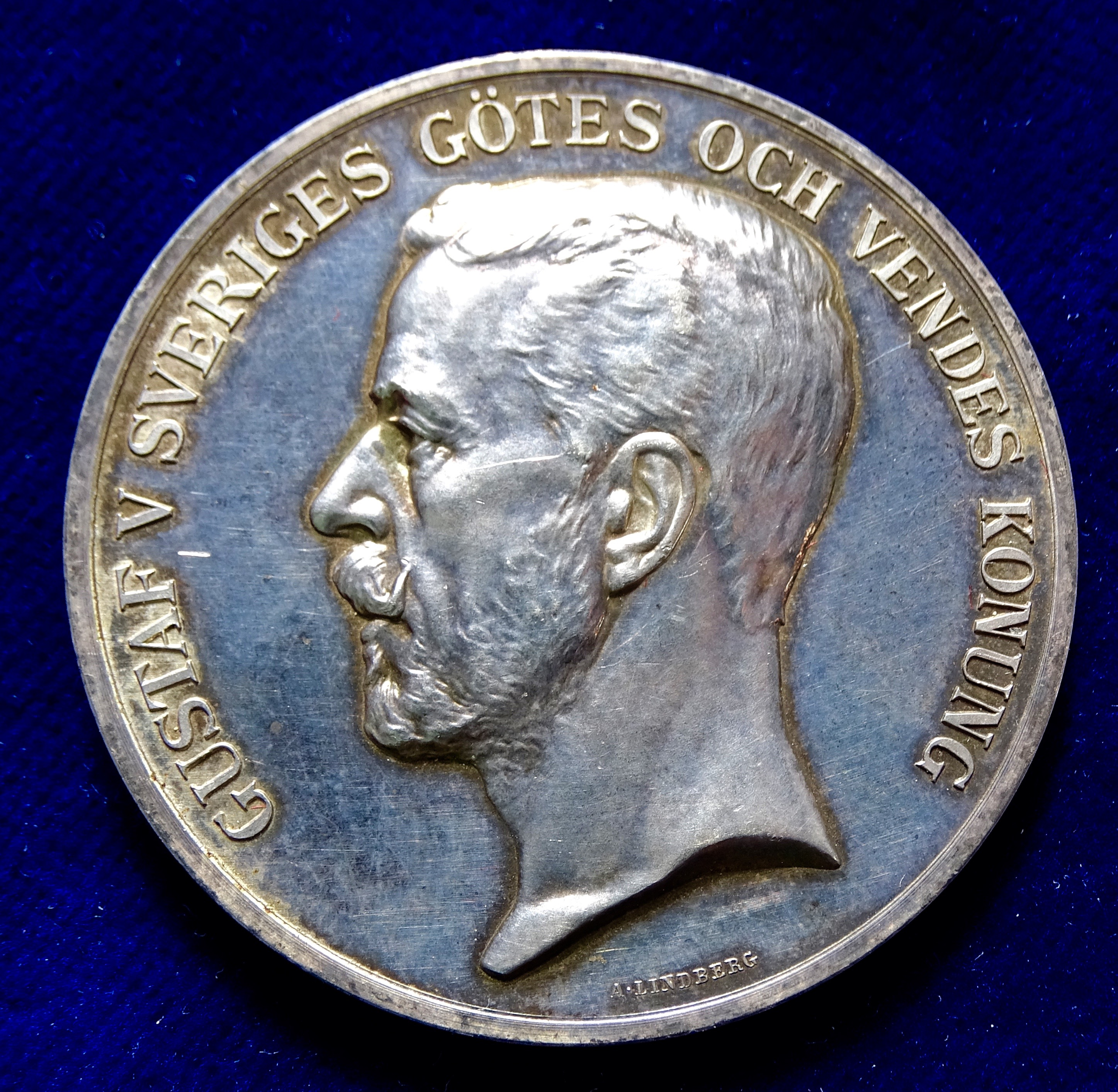 Medallion. Gustav V (1858-1950), 1907 - 1950 Head l., curved above: "GUSTAV V SVERIGES GÖTES OCH VENDES KONUNG"/ Stallion standing l., in exergue: "PRISBELÖNING", curved above: "FOR HÄSTAFVELNS FRÄMJANDE". Edge: "SILVER 1922". Condition: EXTREMELY FINE, nice old patina, no hidden faults.